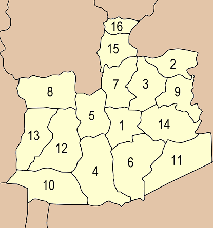 Map of Ayutthaya province, Thailand, showing the Amphoe numbered. Phra Nakhon Si Ayutthaya Tha Ruea Nakhon Luang Bang Sai (บางไทร) Bang Ban Bang Pa-in Bang Pahan Phak Hai Phachi Lat Bua Luang Wang Noi Sena Bang Sai (บางซ้าย) Uthai Maha Rat Ban Phraek